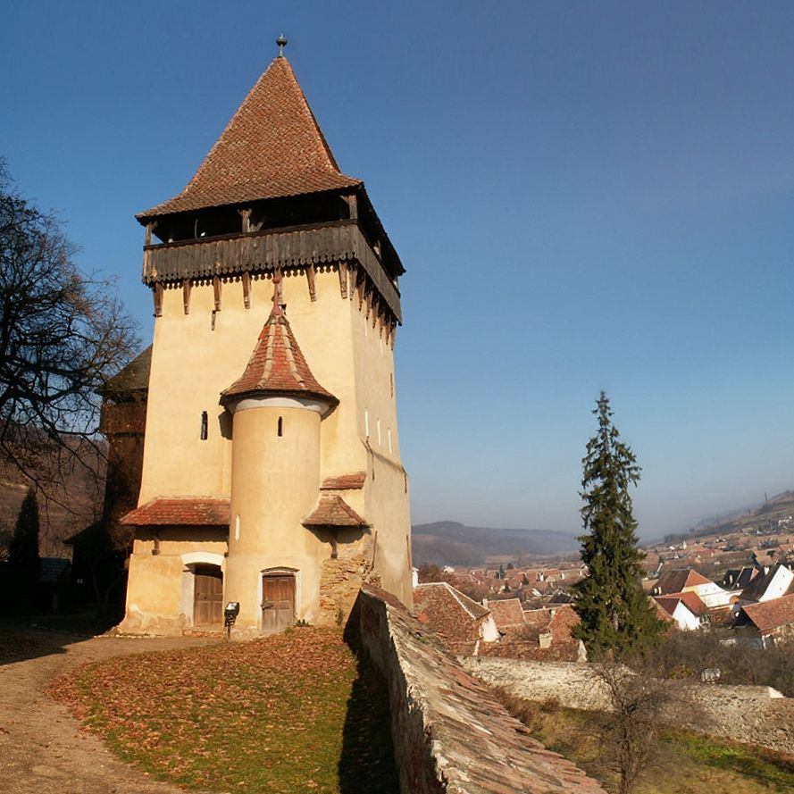 The fortified church is built in the center of the village, on the hill. Surrounded by two circular defense walls, the first church was mentioned in 1402. Today’s church has been erected in the first quarter of the XIV-th century and replaced the old one completely. The church and its fortifications are since 1993 on the UNESCO World Heritage List.